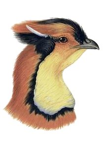 Tragopan wattles: * Fig. 4. Wattle of Blyth's Tragopan (Tragopan blythii)